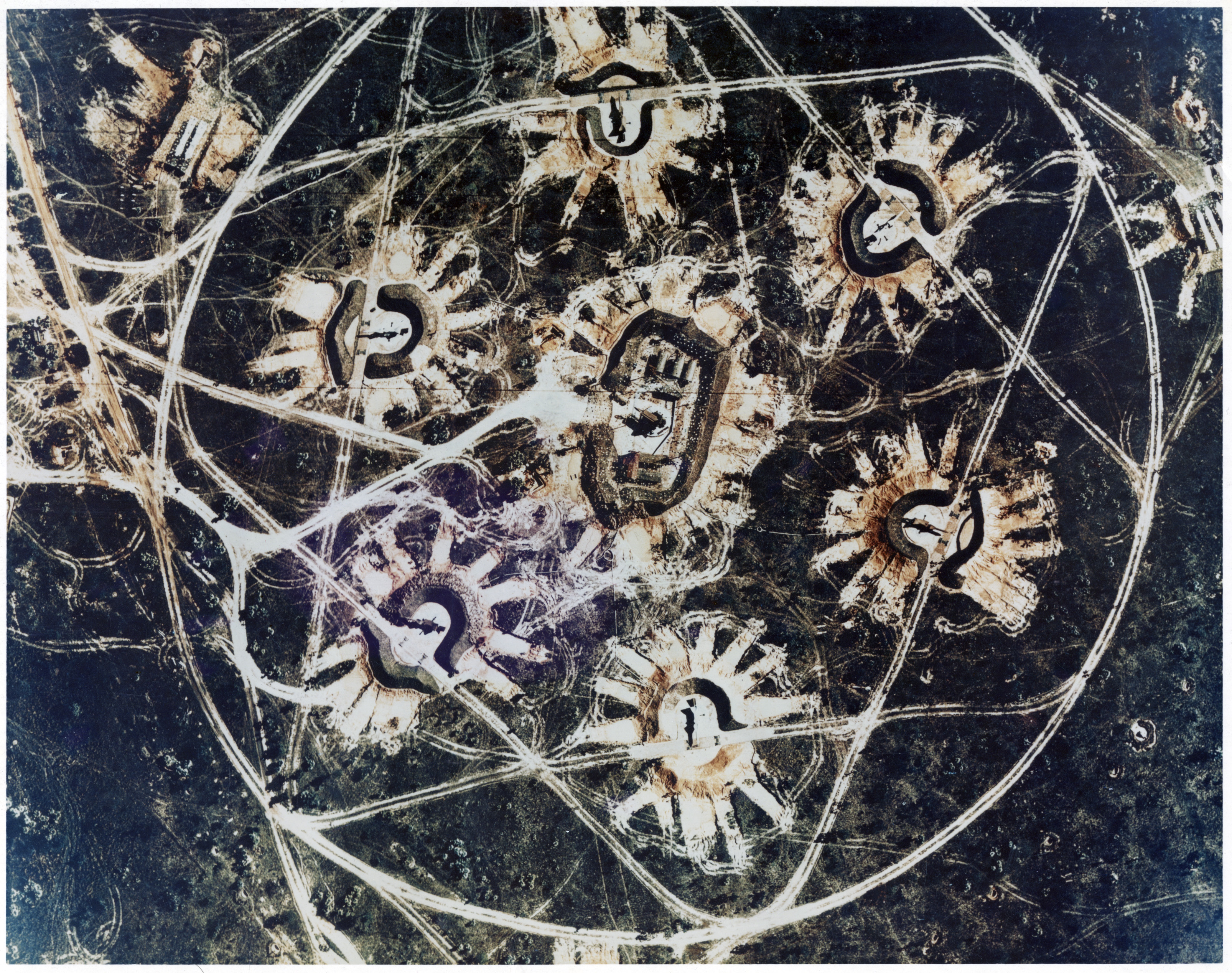 Distinctive star-shaped layout is evident in this SA-2 site in Cuba in November 1962. After the first Wild Weasel successes, the North Vietnamese began laying out the sites irregularly to make them harder to spot.